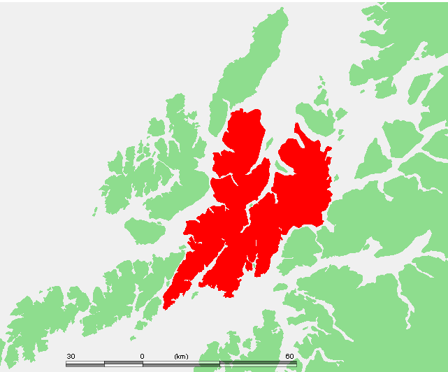 Island of Norway - Hinnoya.PNG